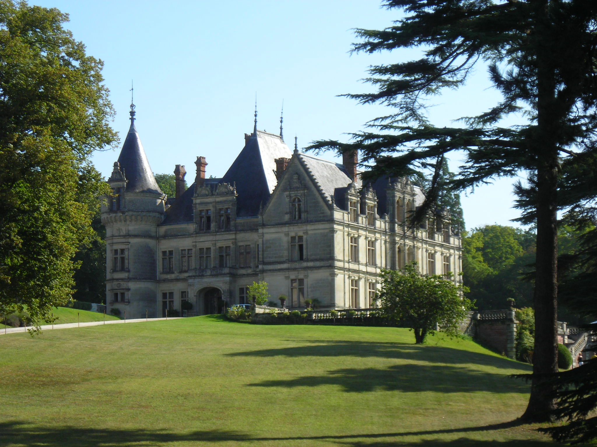 Castle "la Bourdaisière", Montlouis (France) ChiShona: Château de la Bourdaisière à Montlouis